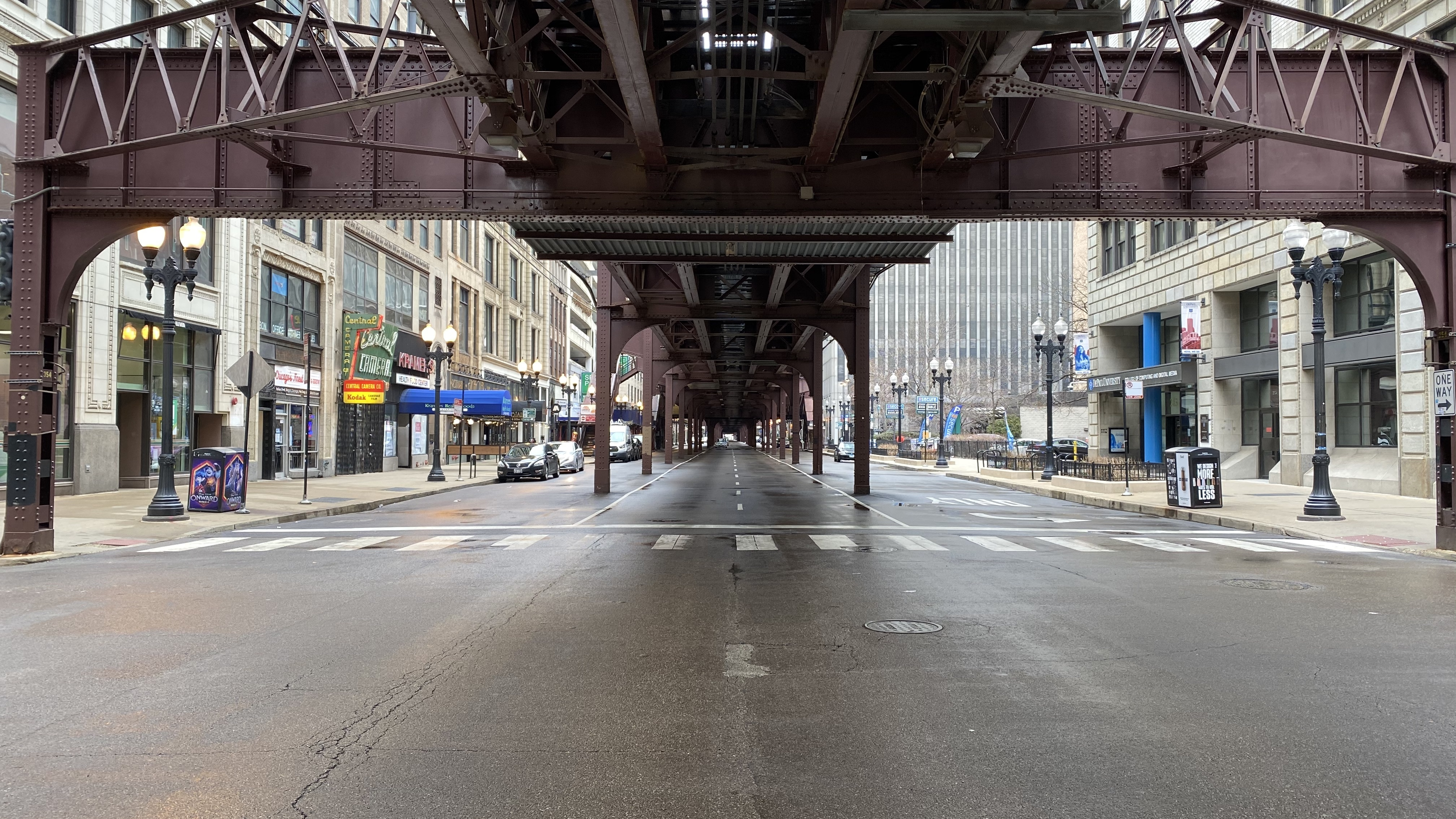 Chicago during COVID-19